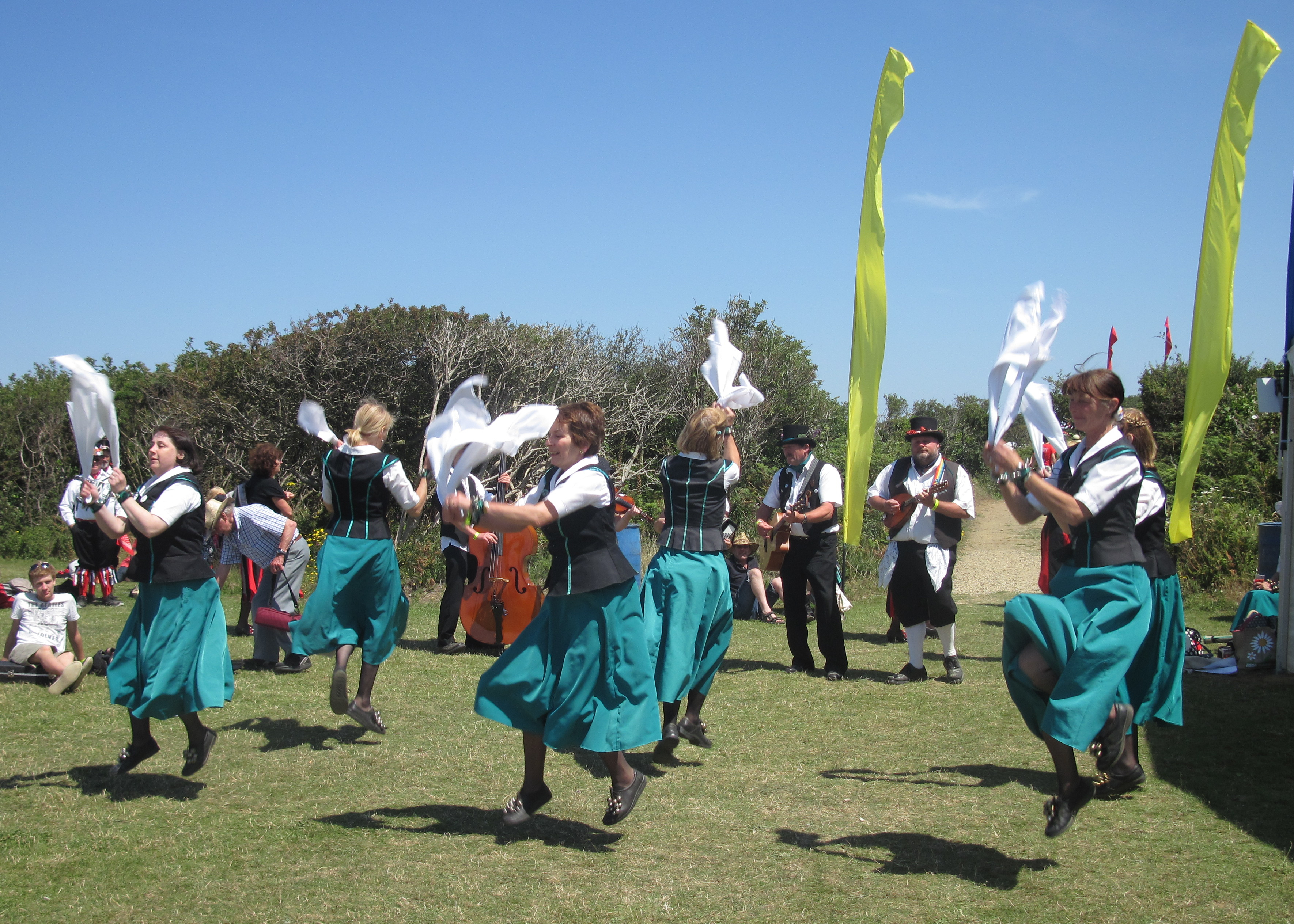 Sark Folk Festival 2011